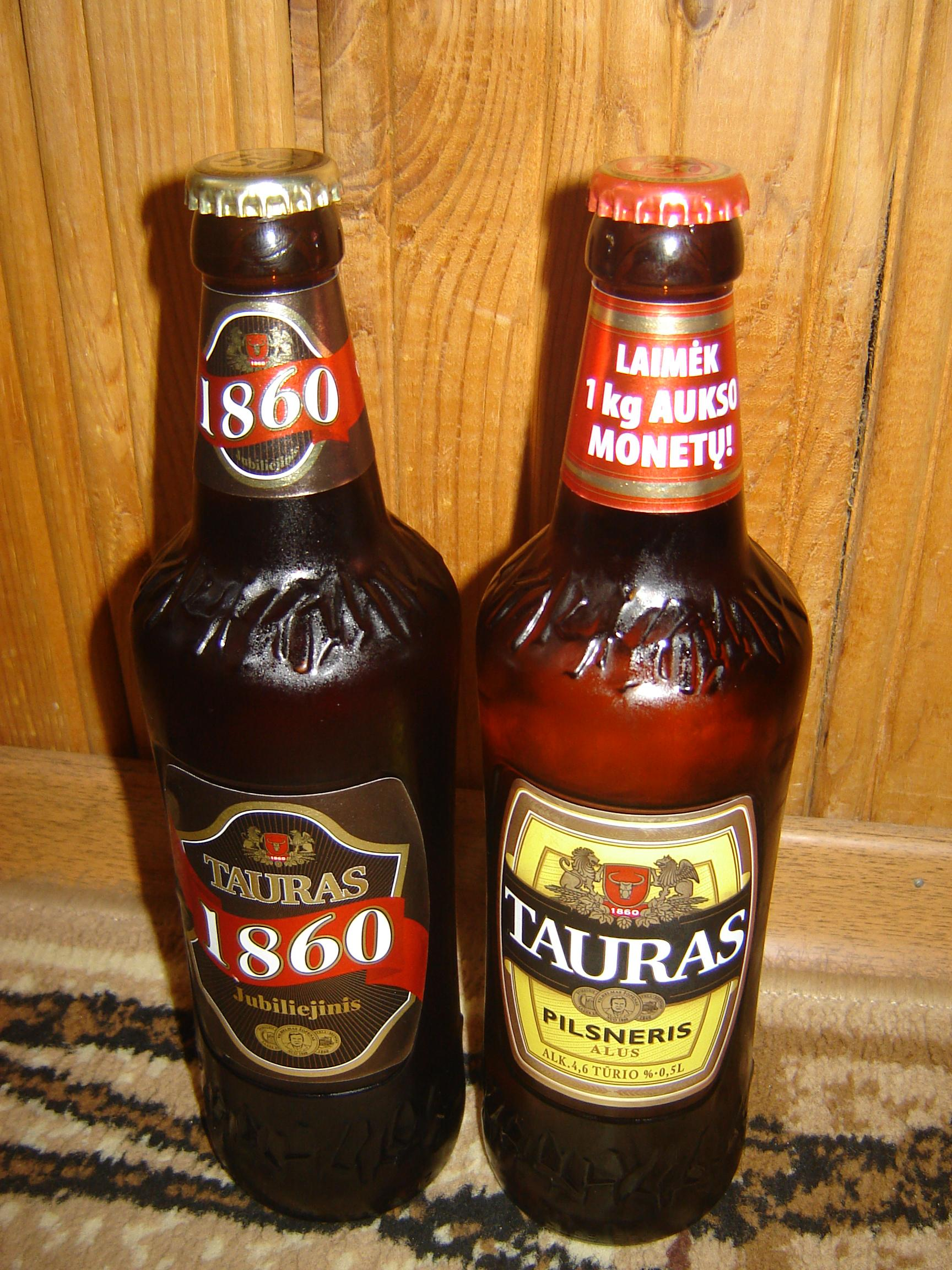 Bottles of Tauras brand beers (Lithuania)